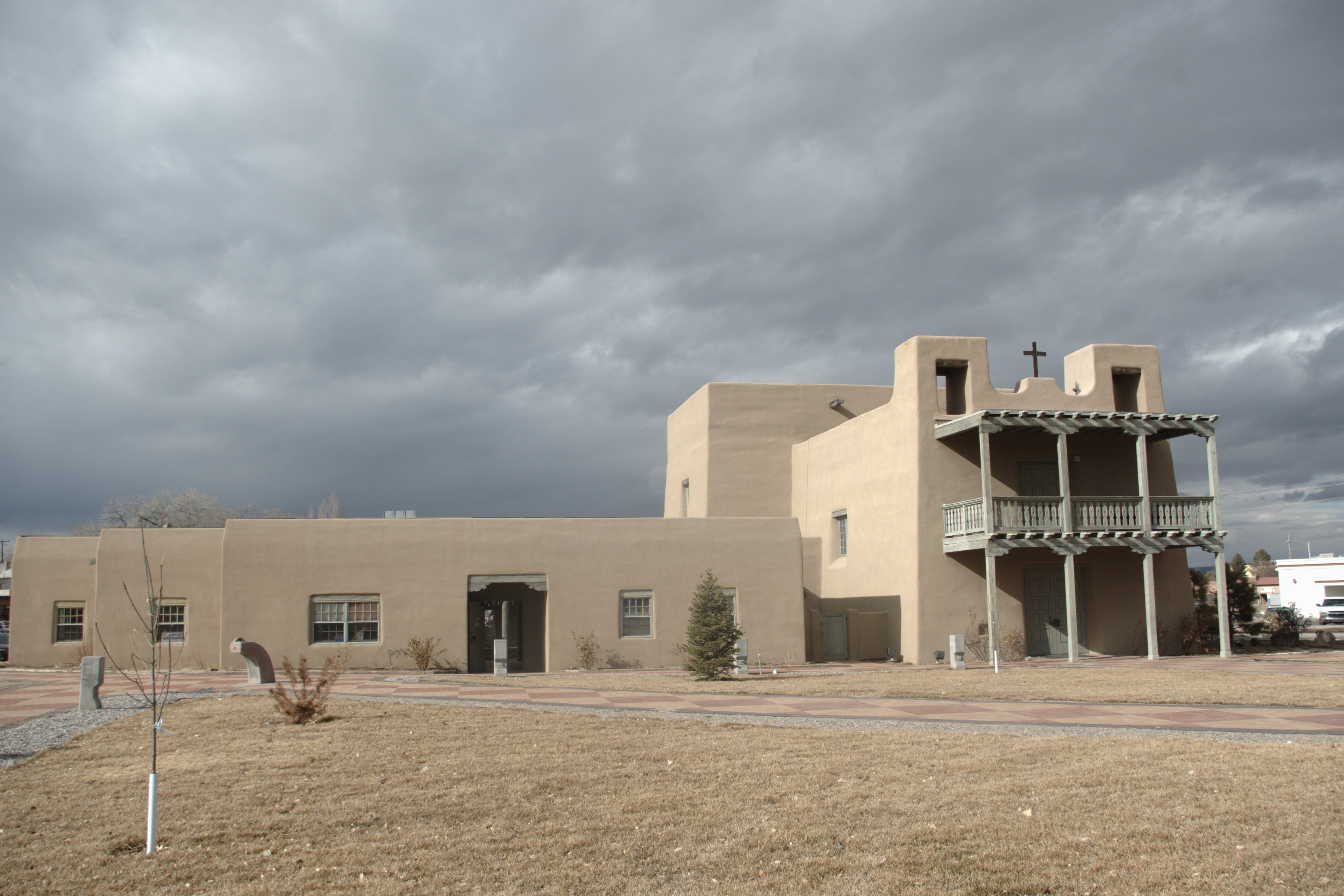 The Misión Museum y Convento, Plaza de Española, Española, New Mexico. It was built in the 1990s to replicate the San Gabriel church, built a few miles away around 1598, as revealed by an archeological excavation in 1944.